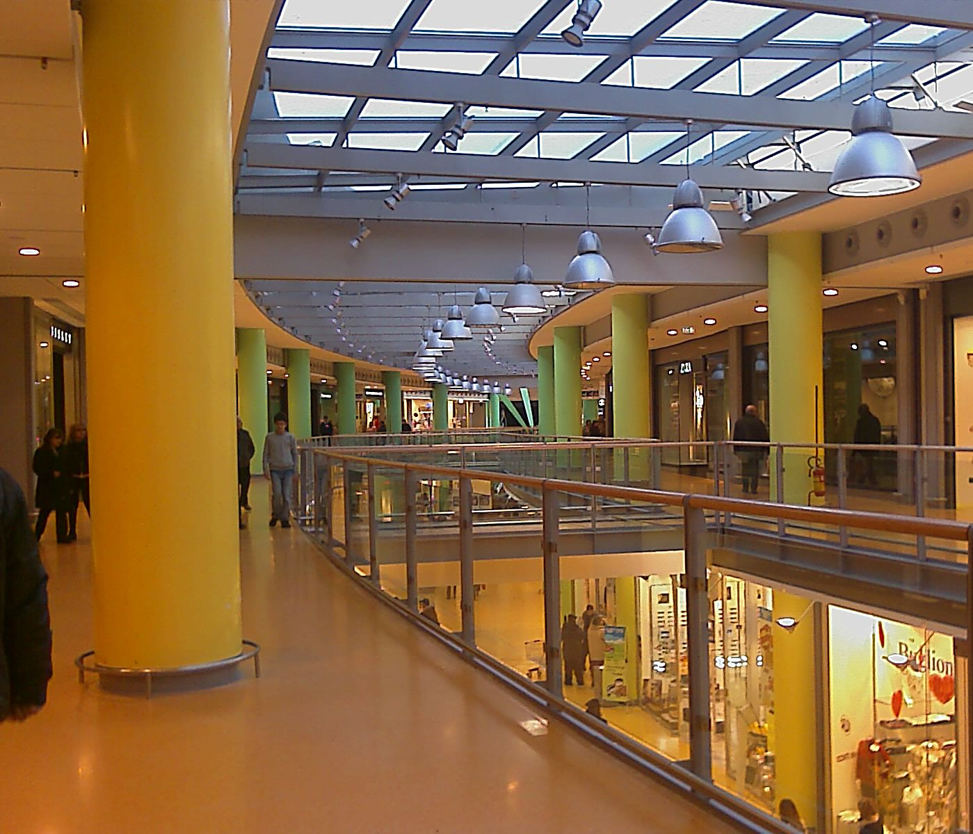 Daylighting and other lighting devices in a shopping mall, passage from Capri to Ischia